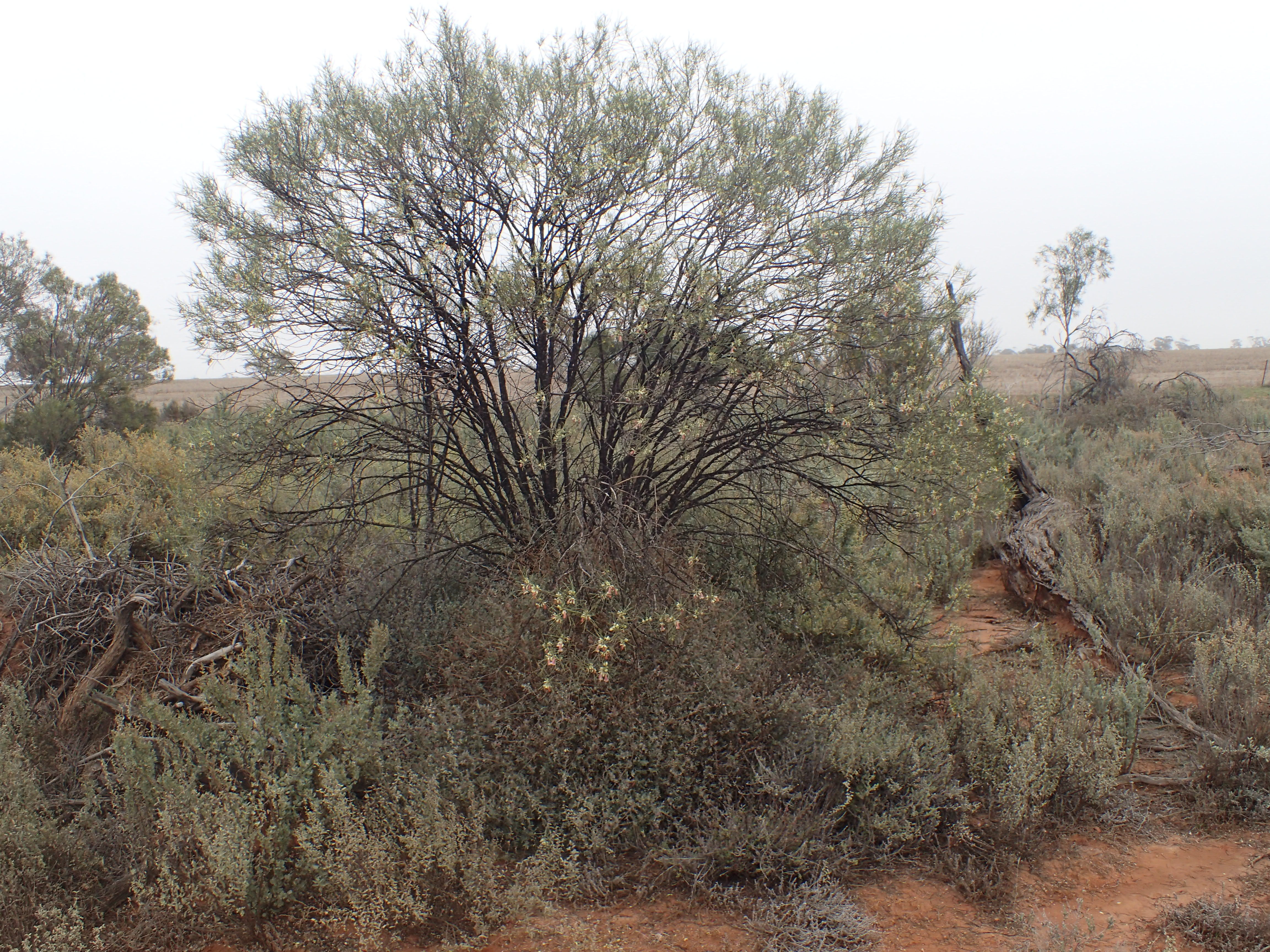 Eremophila caperata growing along a fence in Sanderson Road, near Lake De Courcy in Western Australia